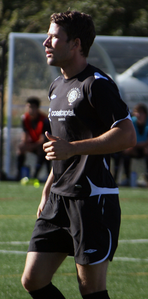 Victoria Highlanders FC forward Riley O'Neill in a match against FC Edmonton at City Centre Park, Langford on August 9, 2010. By the author.